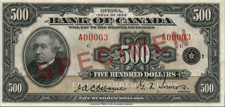 1935 Series $500 banknote, obverse